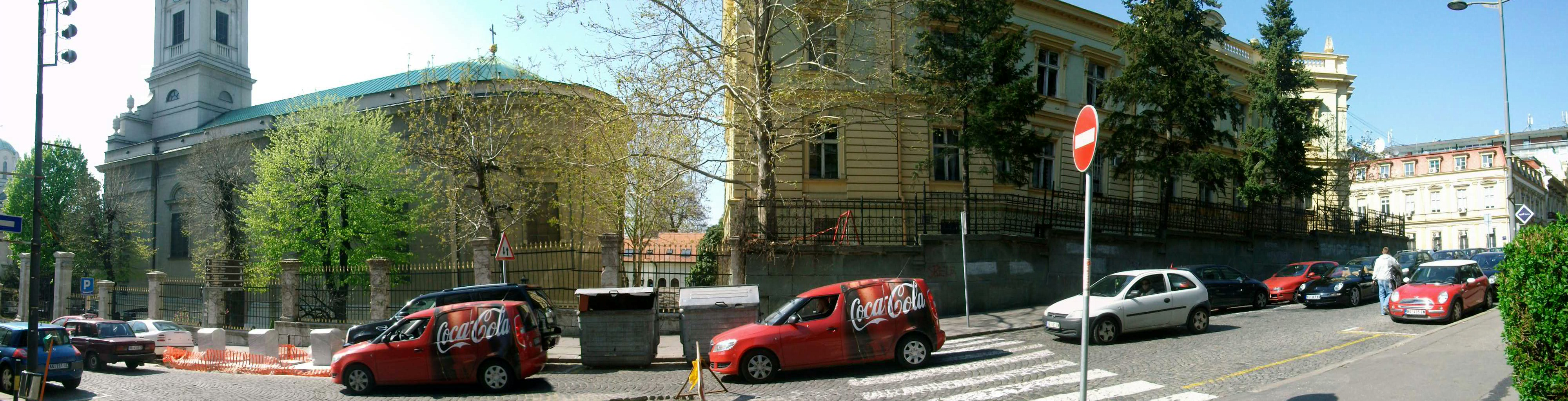 Panoramic view of Kosancicev venac